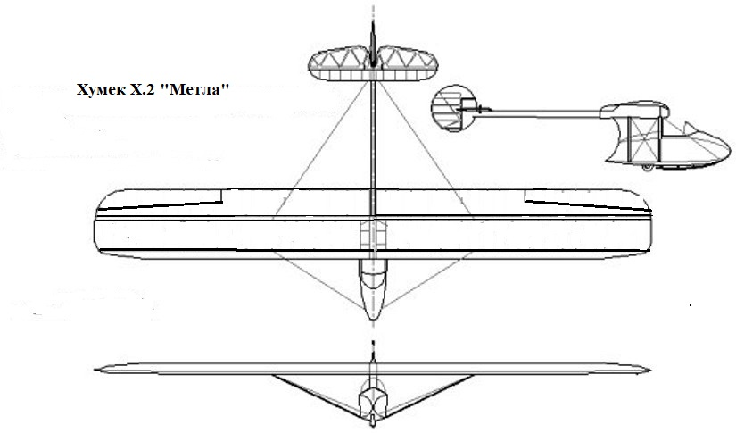 Drawing of the Yugoslav Glider Humek H.2 Српски (ћирилица): Цртеж југословенске једрилице Хумек Х.2 у три пројекције